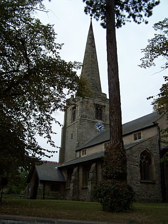 All Saints' parish hurch, Plumtree Road, Cotgrave, Nottinghamshire, seen from the east